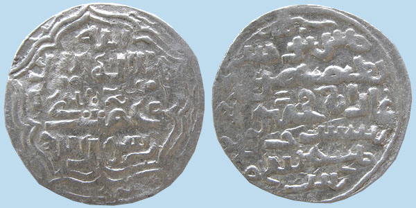 Coin from the period of the Ilkhanate ruler Mahmud Ghazan (1295-1304), printed in Enguriye (Ankara). Front of the coin:KELİME-İ TEVHİD ORTADA DURİBE ENGÜR , ETRAFINDA .... TİS'A TİS'İN ....." Back : "TEGRİİN KUCUNDUR GAZAN MAHMUD DELEDKEGÜLÜK SEN"